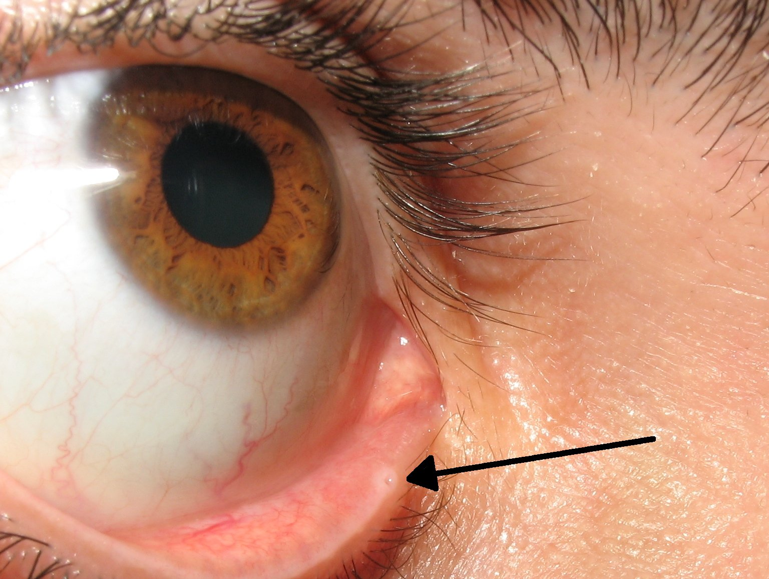 Picture of an human eye with the lacrimal punctum (or lacrimal point) in evidence.